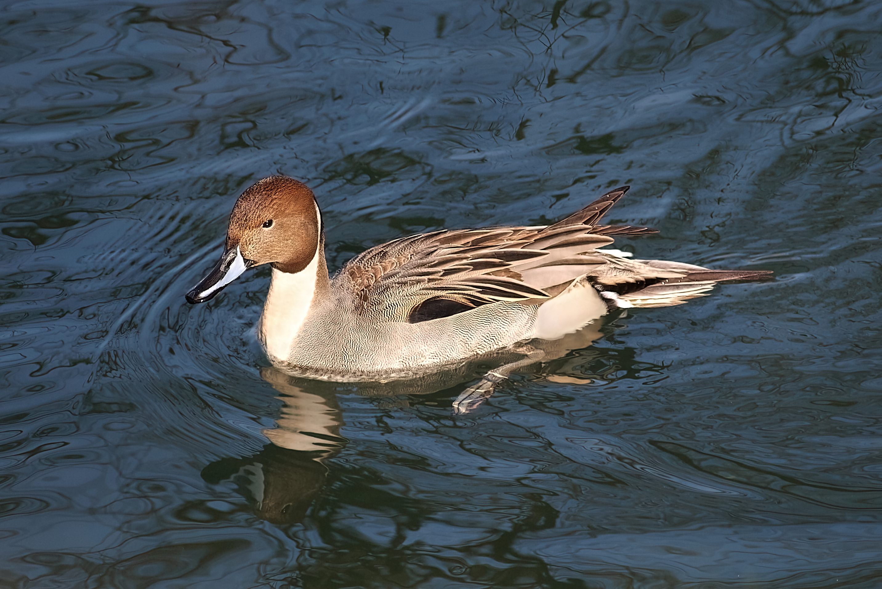 Pintail Anas acuta (male) wintering 2010/2011 on river Ljubljanica, Slovenia. They reach 51-62 cm in length (without tail).